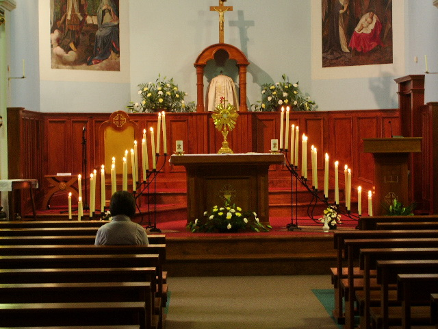 The chancel of St Mary's Catholic Church, Birchley, Merseyside, seen from the nave